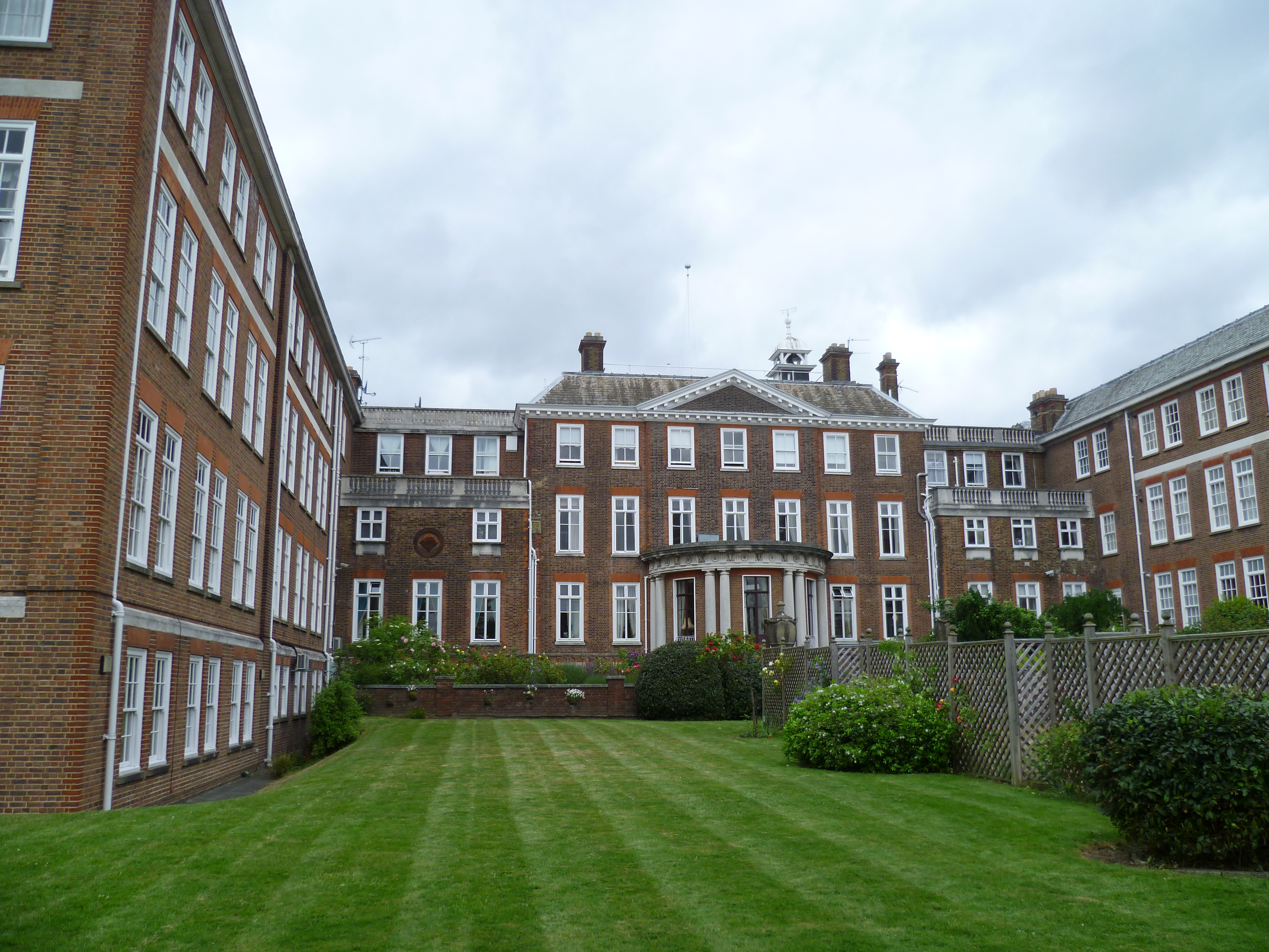 Southgate Beaumont care home